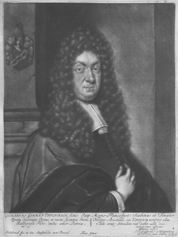 Portrait of Zacharias Conrad von Uffenbach; Schabkunst / Roos, F[ranz] ; o. J. - Schenck, P[ieter] ; o. J. - Schenck, P[ieter] ; o. J. Bild: 223x183 ; Platte: 247x183